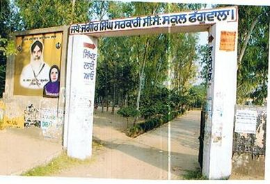 Government Sr. Sec School Phaguwala